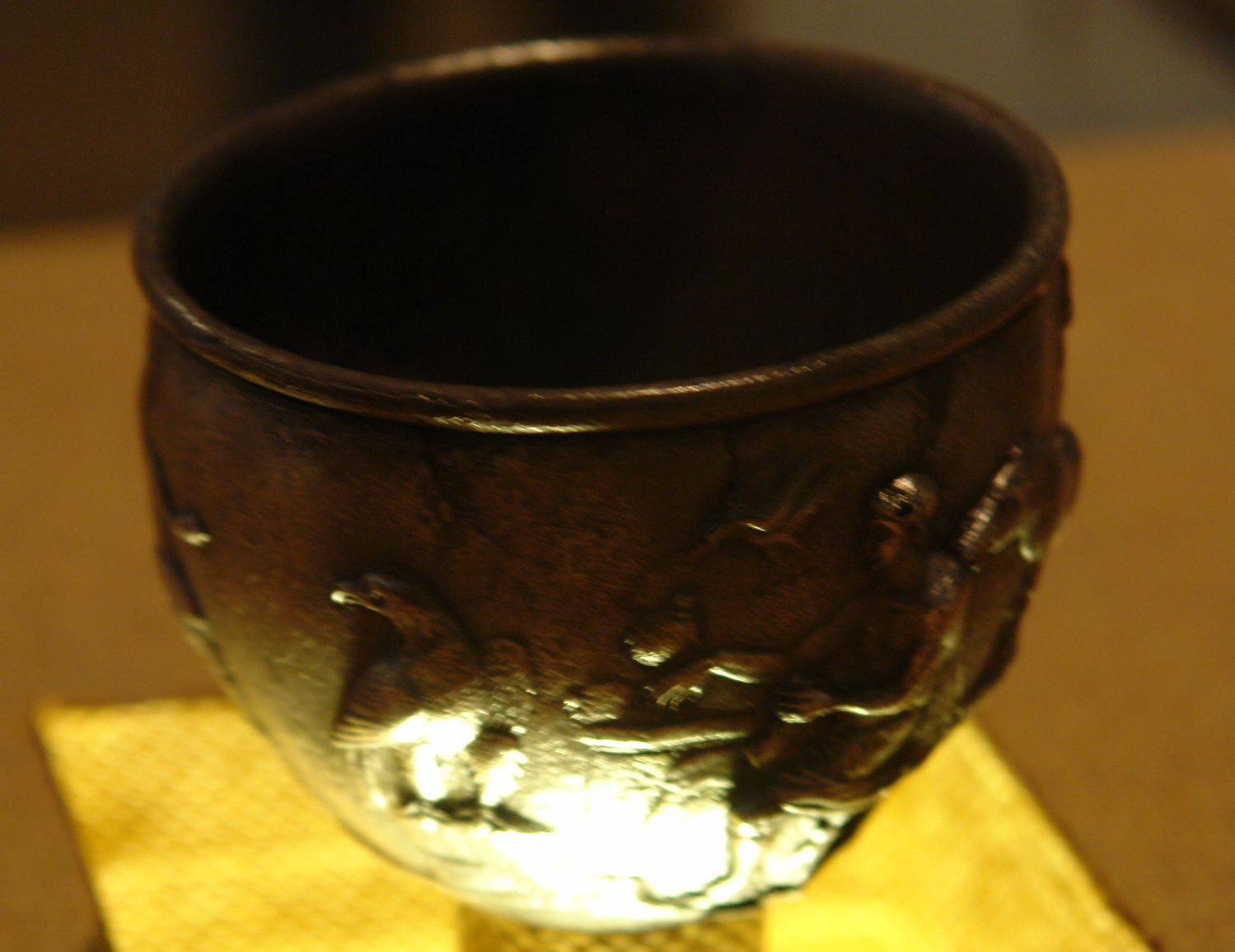 Silver goblet with gallic gods - Musée gallo-romain de Fourvière